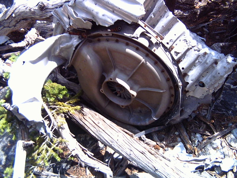 B17 turbocharger, crash debris